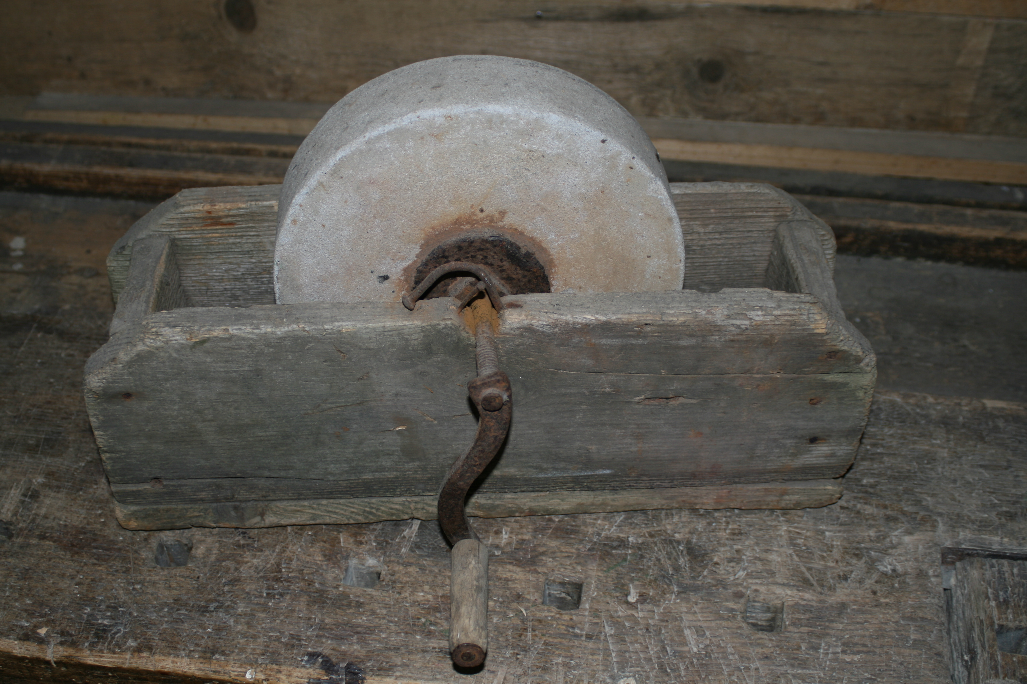 grindstone